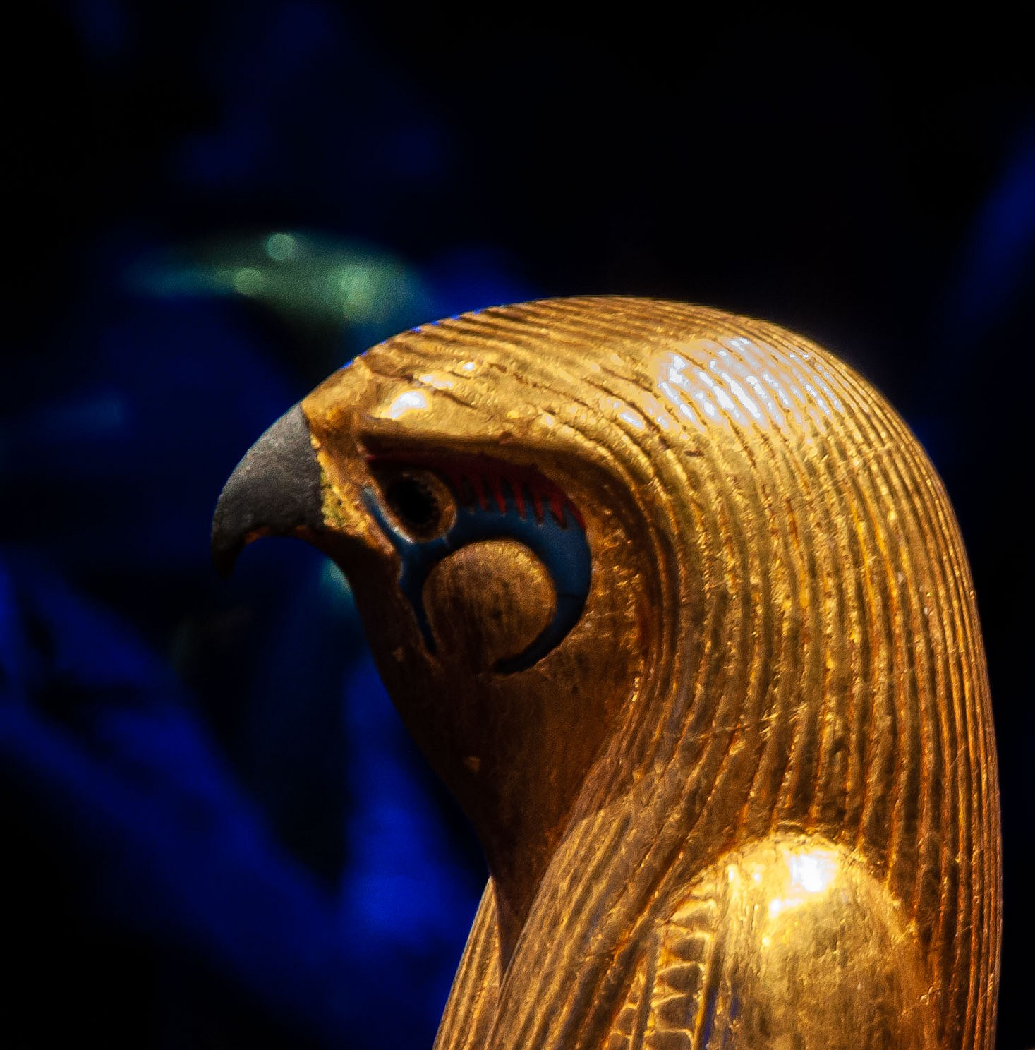 In the Book of the Dead, Horsemsu is the form in which Horus fought his uncle Seth to return to the throne of Egypt and avenge his father.